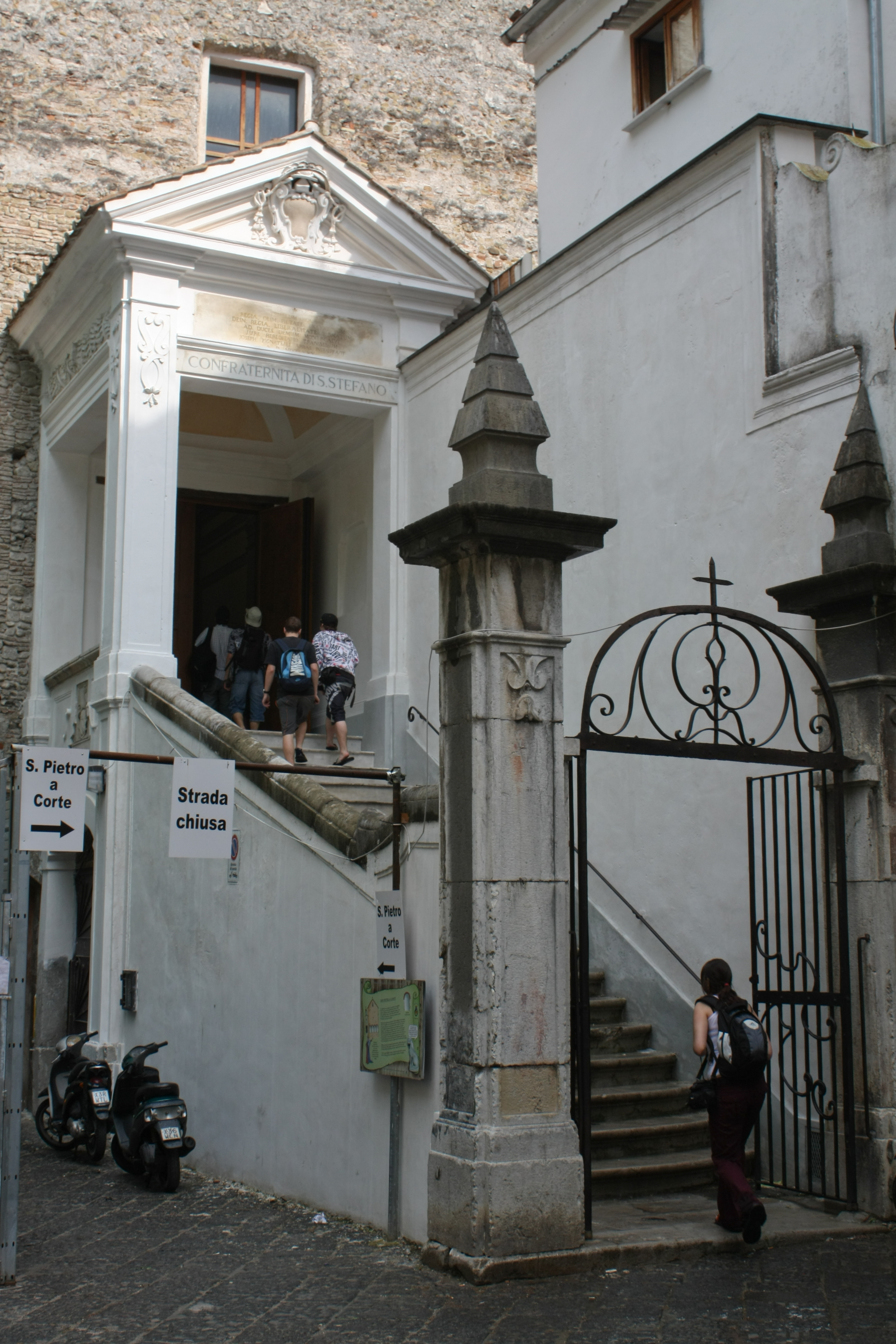 San Pietro a Corte entrance — City of Salerno, province of Salerno, Campania, southern Italy.